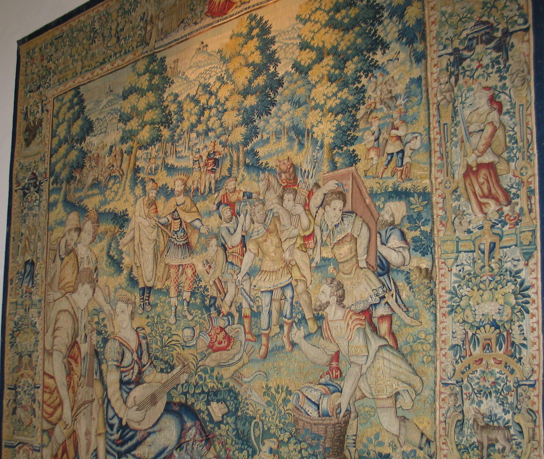 Detail of tapestry from 1600; copy of a original tapestry, designed by Michael Coxcie around 1560, depicting the life of Cyrus the Great, belonging to the Royal Spanish family, now in Palacio Real, Madrid.